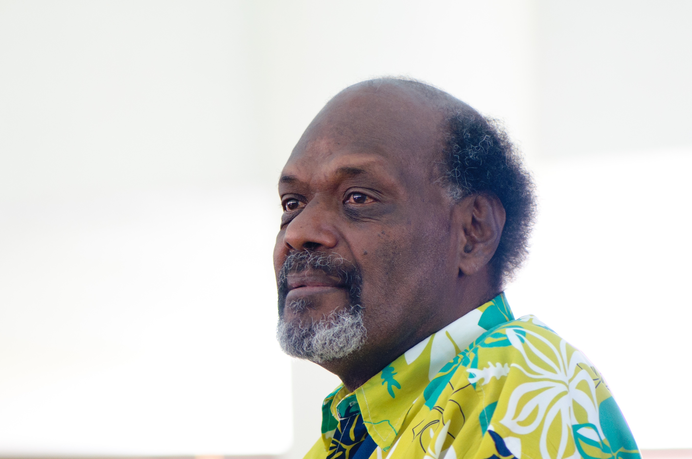 Rialuth Serge Vohor